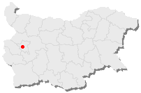 Map of Bulgaria, the red point is the position of Sofia.